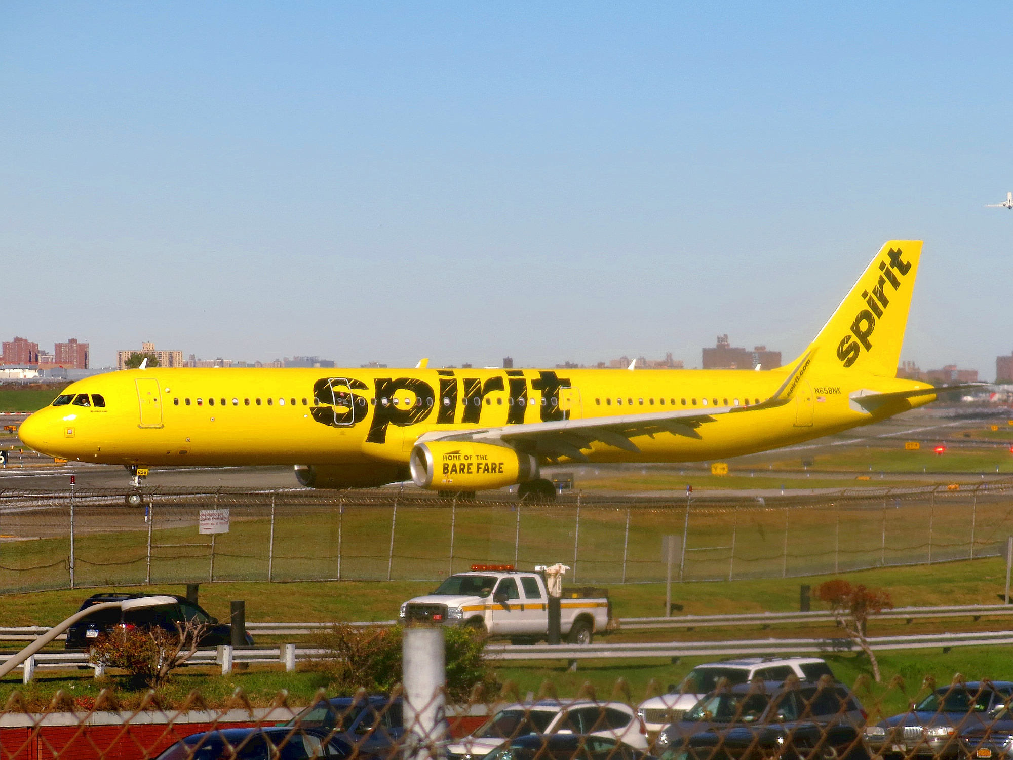 A Spirit Airlines Airbus A321 in the newest livery is taxiing from Taxiway B to Runway 4 for takeoff clearance, as photographed from Planeview Park. Runway 4/22 runs behind the aircraft, and the Grand Central Parkway is visible in the bottom of the picture.